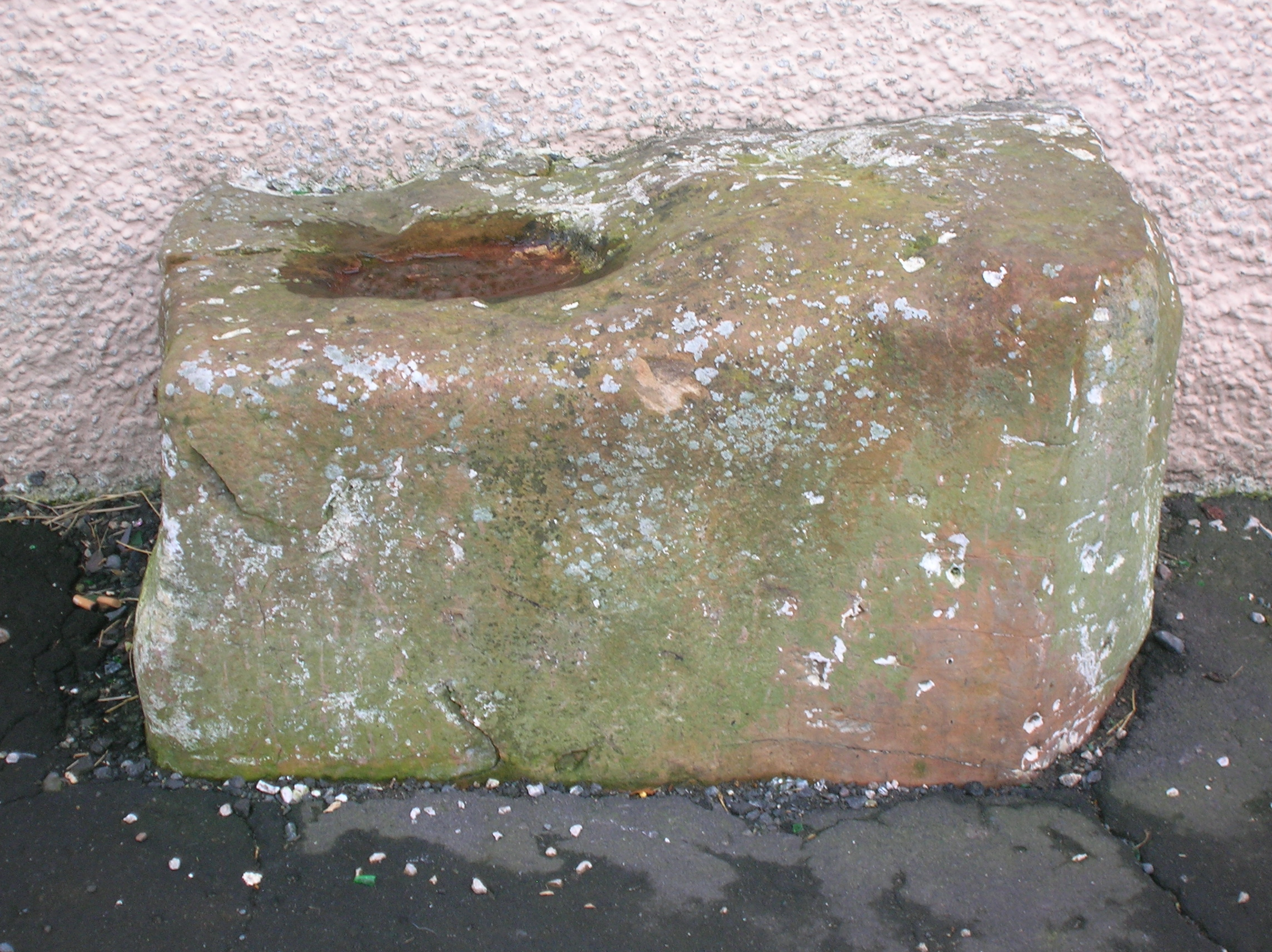 The horse-block or Loupin'-on-stane, Kilmaurs, East Ayrshire, Scotland. Roger Griffith. 18-10-07